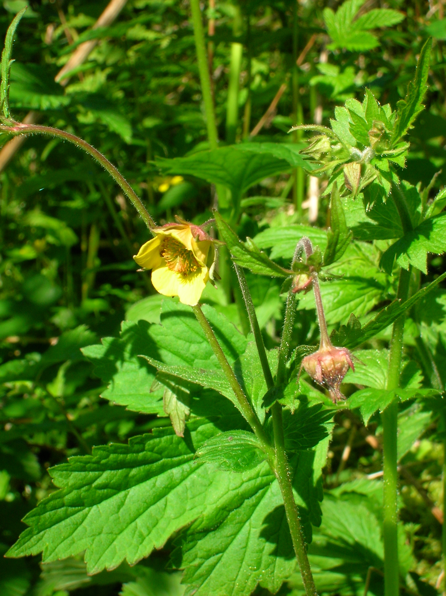 Geum × intermedium (Geum urbanum × G. rivale). Flowers and foliage. Ayrshire. Scotland.